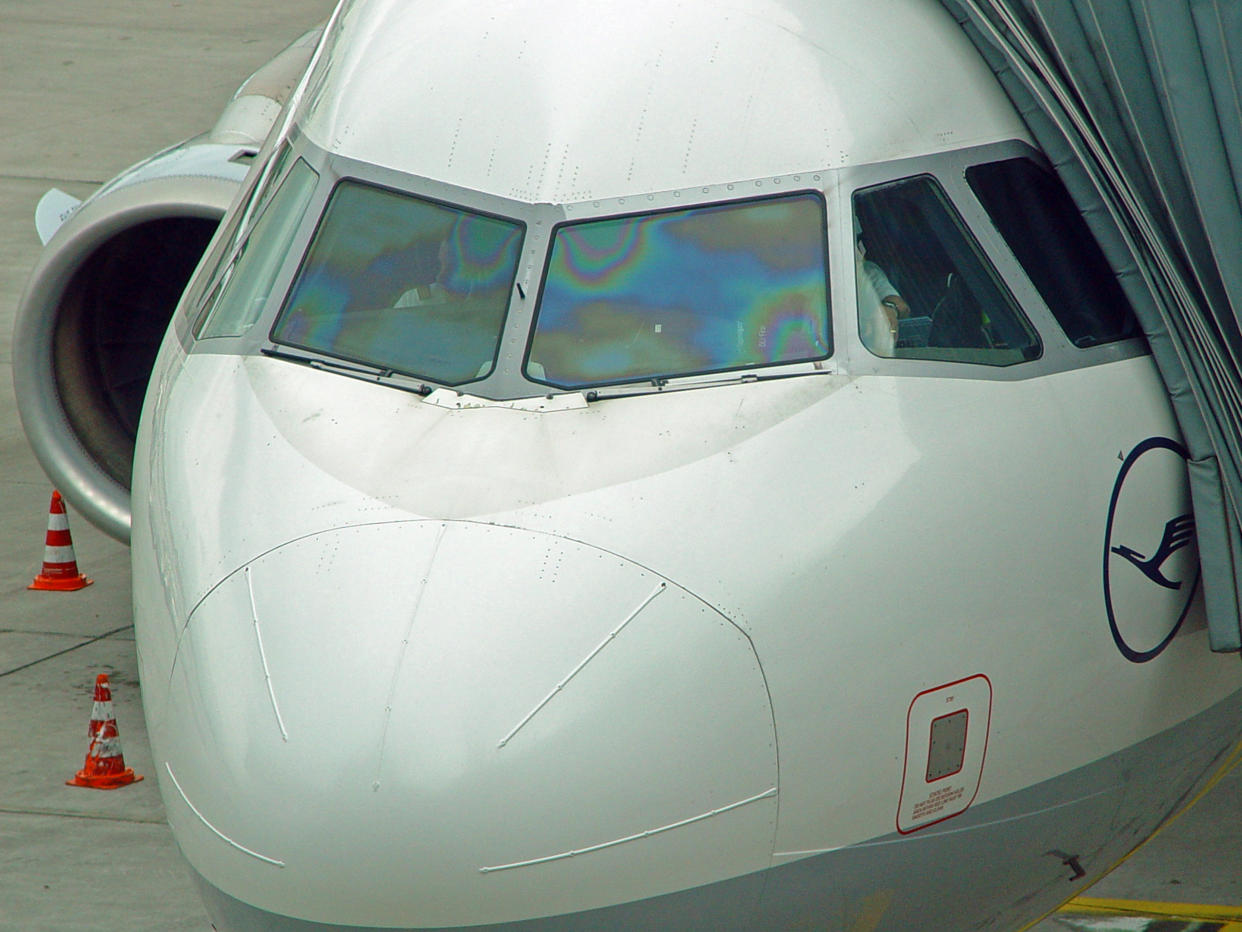 Airbus A319, A320 or A321. - Fringes observed on airbus Airbus windshield due to thin film interference caused by a conductive Indium Tin Oxide (ITO) thin film deposited on the window for electrical defrosting/defogging. The fringes are strongly visible because the thin film thickness is highly non-uniform on purpose: as the voltage is applied on two opposite points of the window, a uniform conductive film (uniform sheet resistance) would lead to non-uniform current density, and non-uniform defrosting. Some window parts, especially on the sides and far from the electrical contacts, would dissipate less heat, and defrosting would be significantly less efficient here. The ITO thickness pattern is cleverly designed to provide a rather uniform heat dissipation over the whole window. (description courtesy of 88.164.16.51). The photo was taken through the gate glass-wall, without any polarizing filter on the camera.